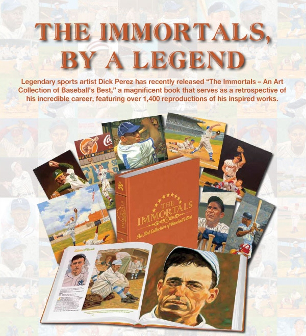 Cover collage for Dick Perez's book "The Immortals: An Art Collection of Baseball's Best." Self-Published in 2010